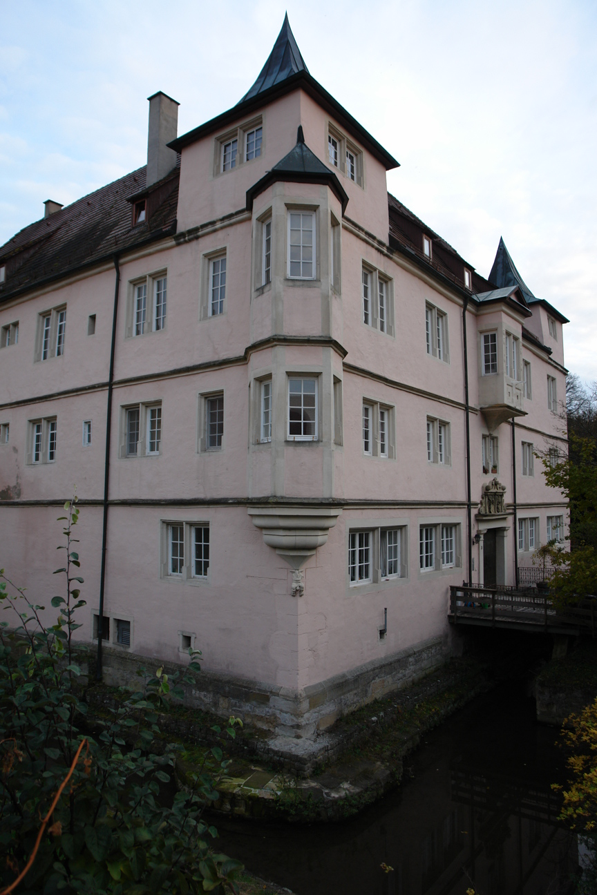 Moated Castle in Ammerbuch-Poltringen (Germany)